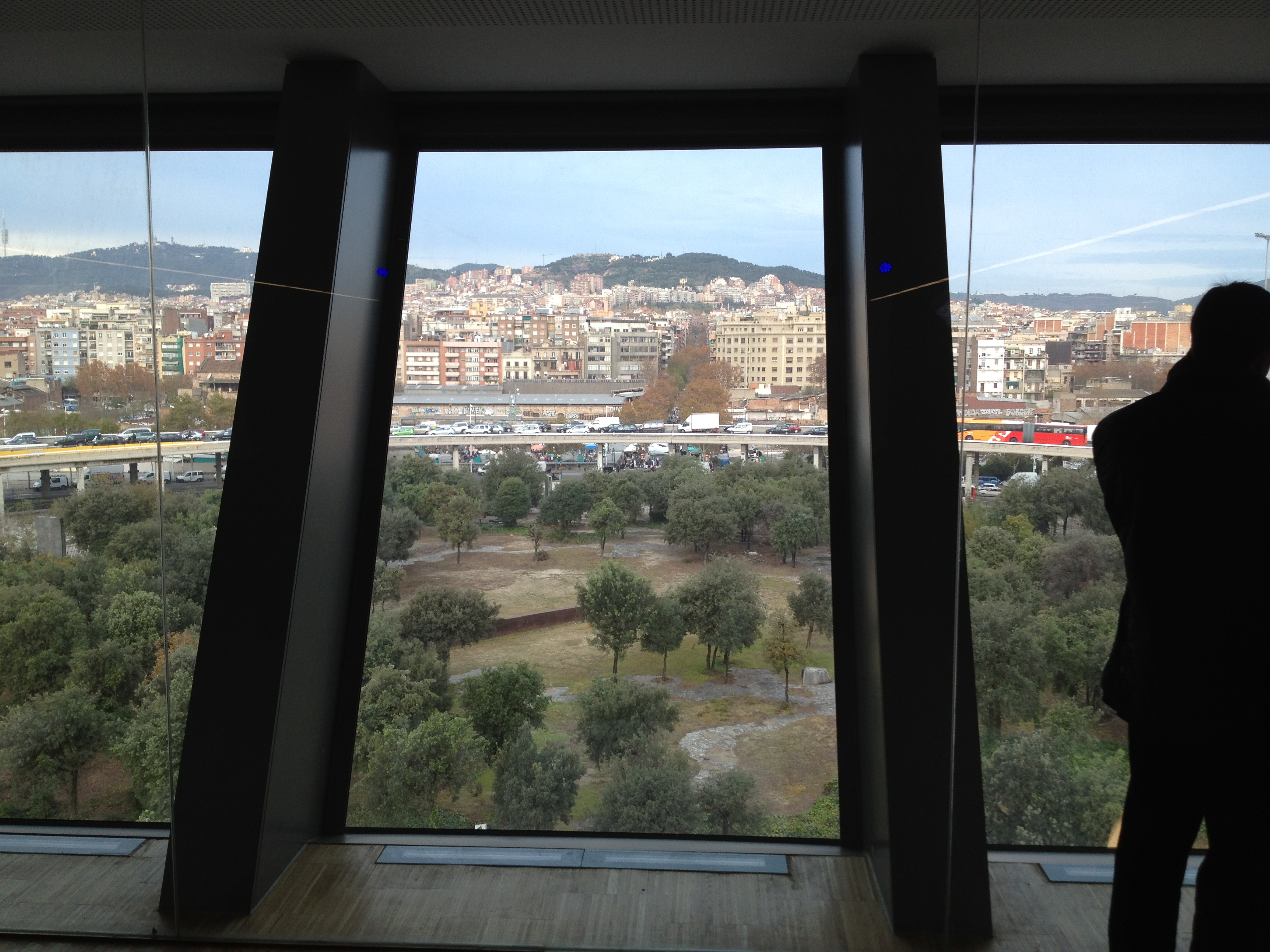 New Disseny Hub Barcelona building. View over plaça de les Glories